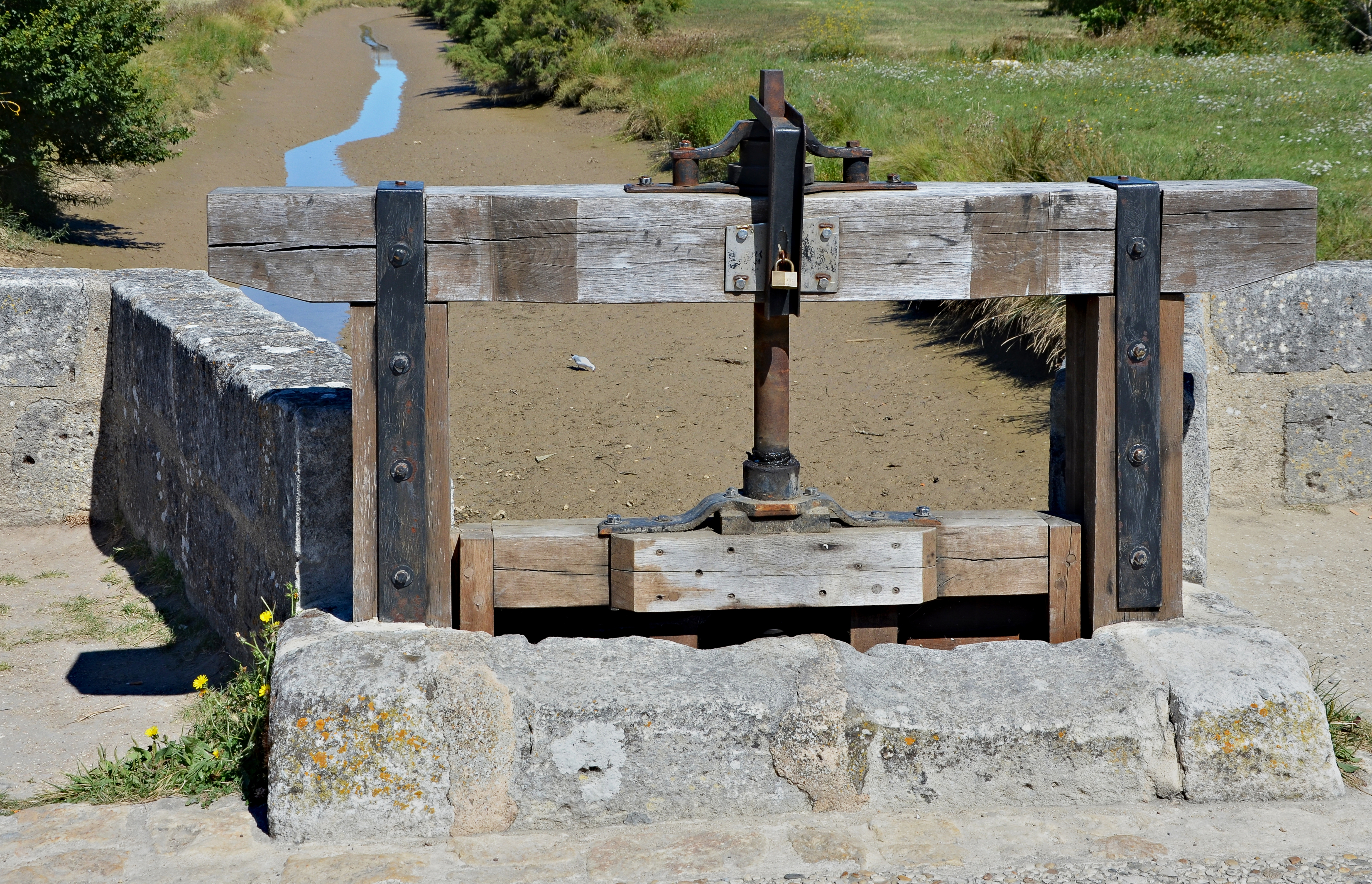 Valve on the channel of Talmont-sur-Gironde, Charente-Maritime, France.